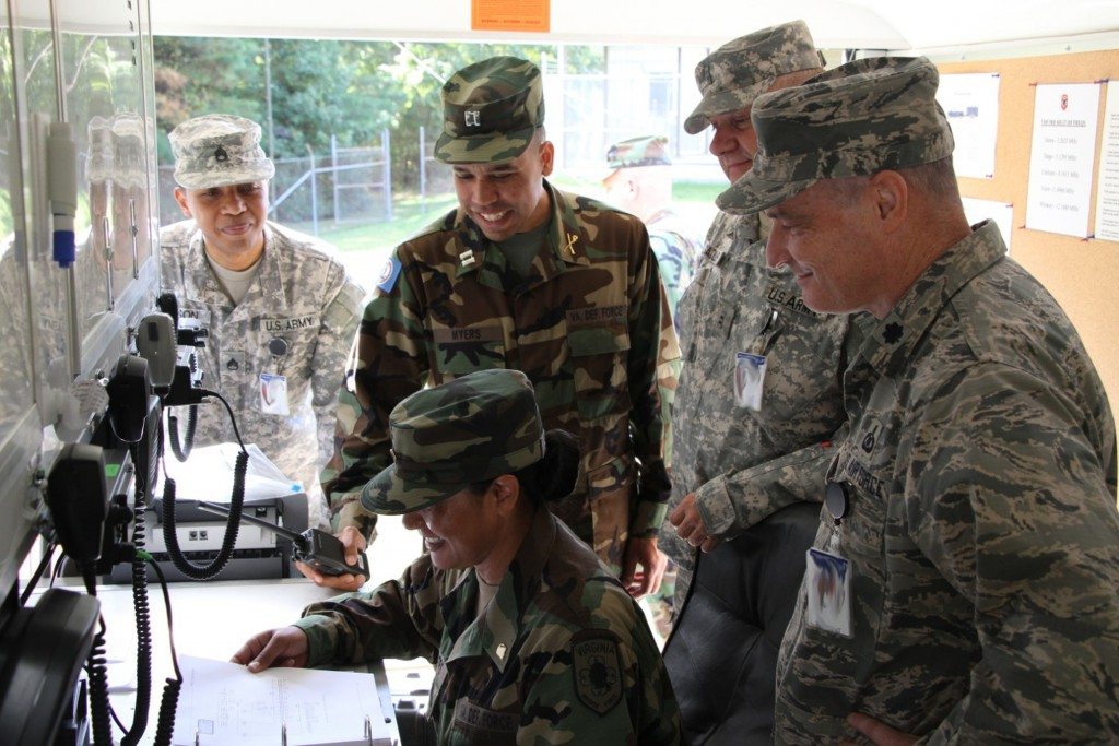 Members of the Virginia Defense Force and the Virginia National Guard operate a mobile command post to test communications capabilities Oct. 4, 2014, in Sandston, Va. Using the MCP, the VDF operates mobile tactical communication packages using wireless internet and satellite phones to test communications with the Virginia National Guard's Sandston-based Joint Operations Center. One of the key capabilities of the MCP is long range radio communications.